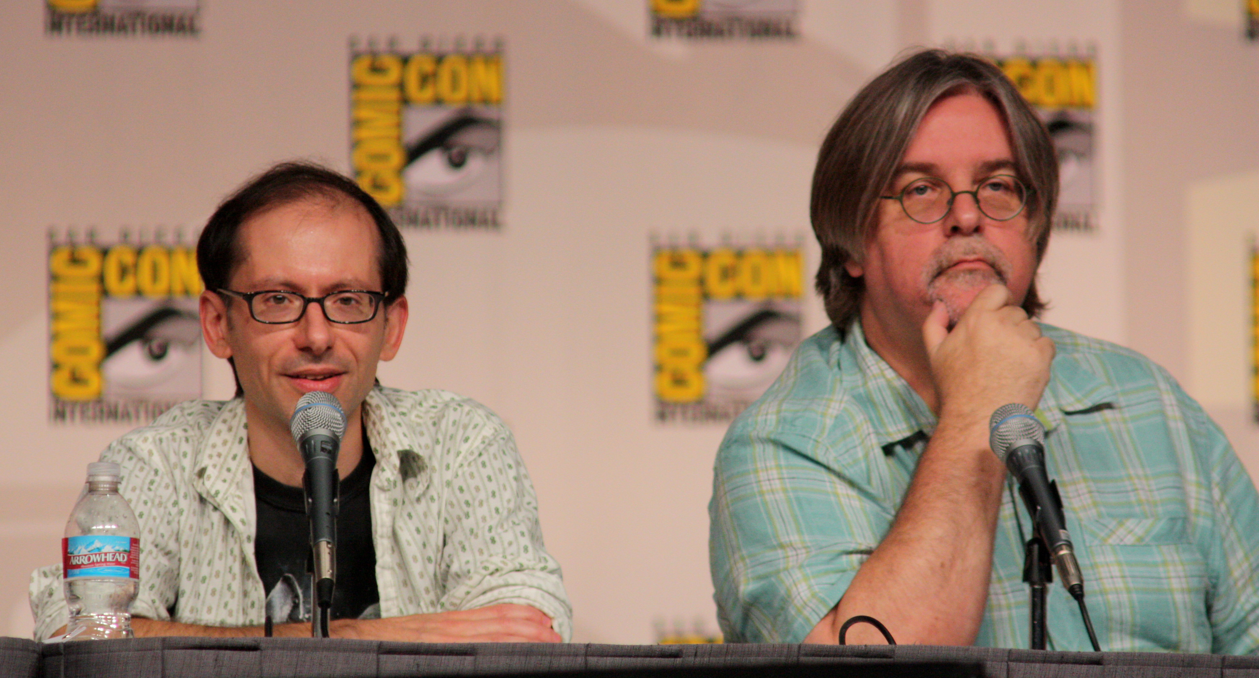 David X. Cohen and Matt Groening at the 2009 Comic Con in San Diego.